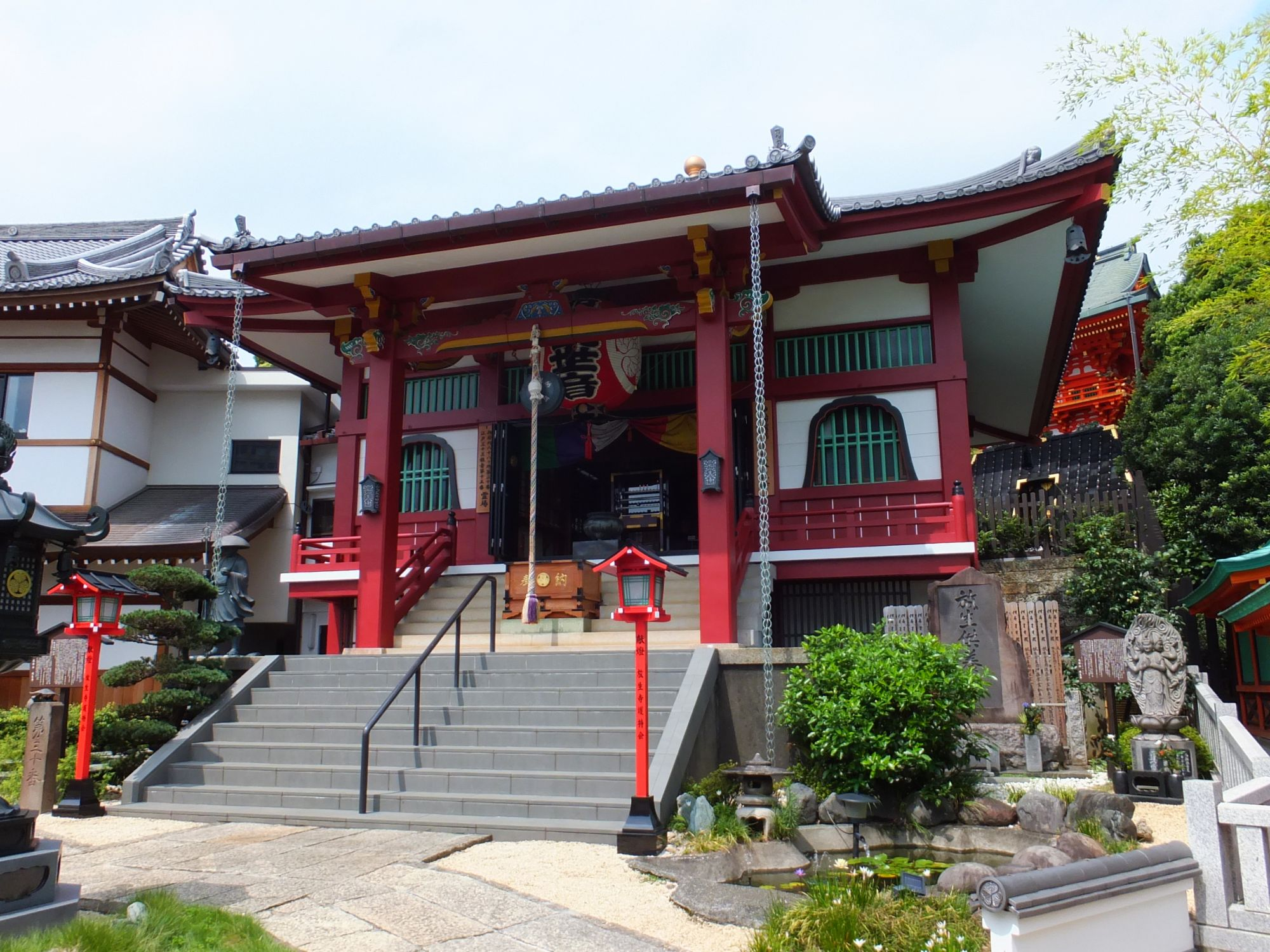 Hōshō-ji temple in Shinjuku, Tokyo